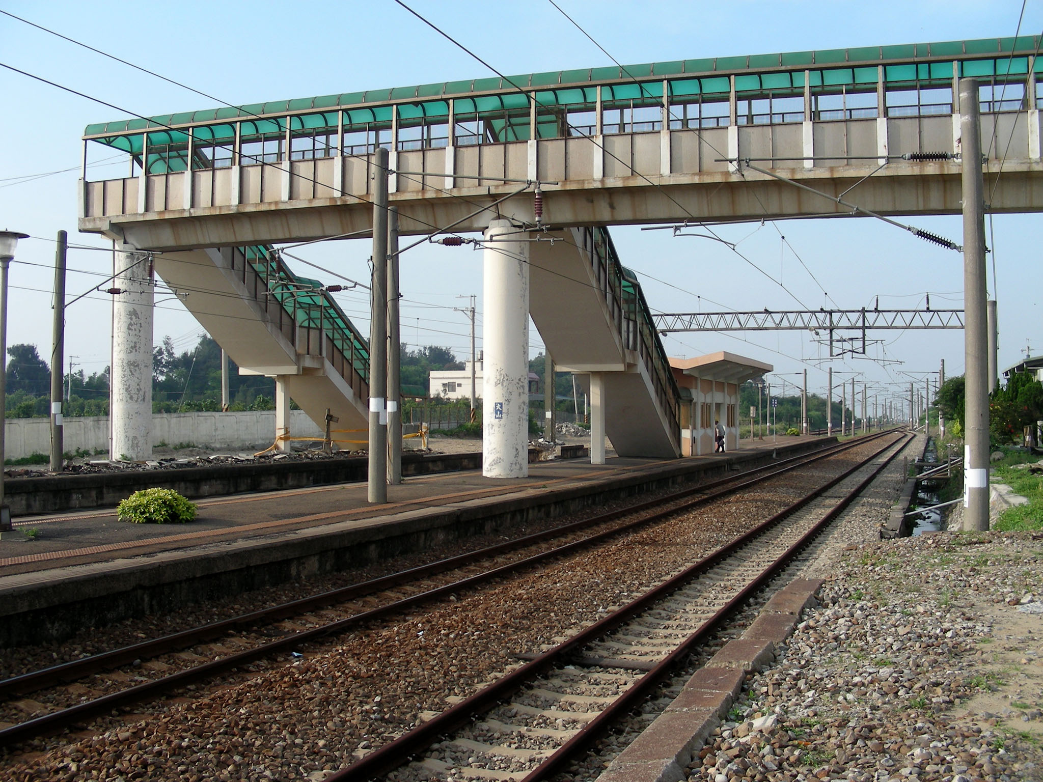 Taiwan "Da Shan" Railway Station platform